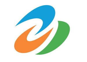 Flag of Minamiaizu Fukushima